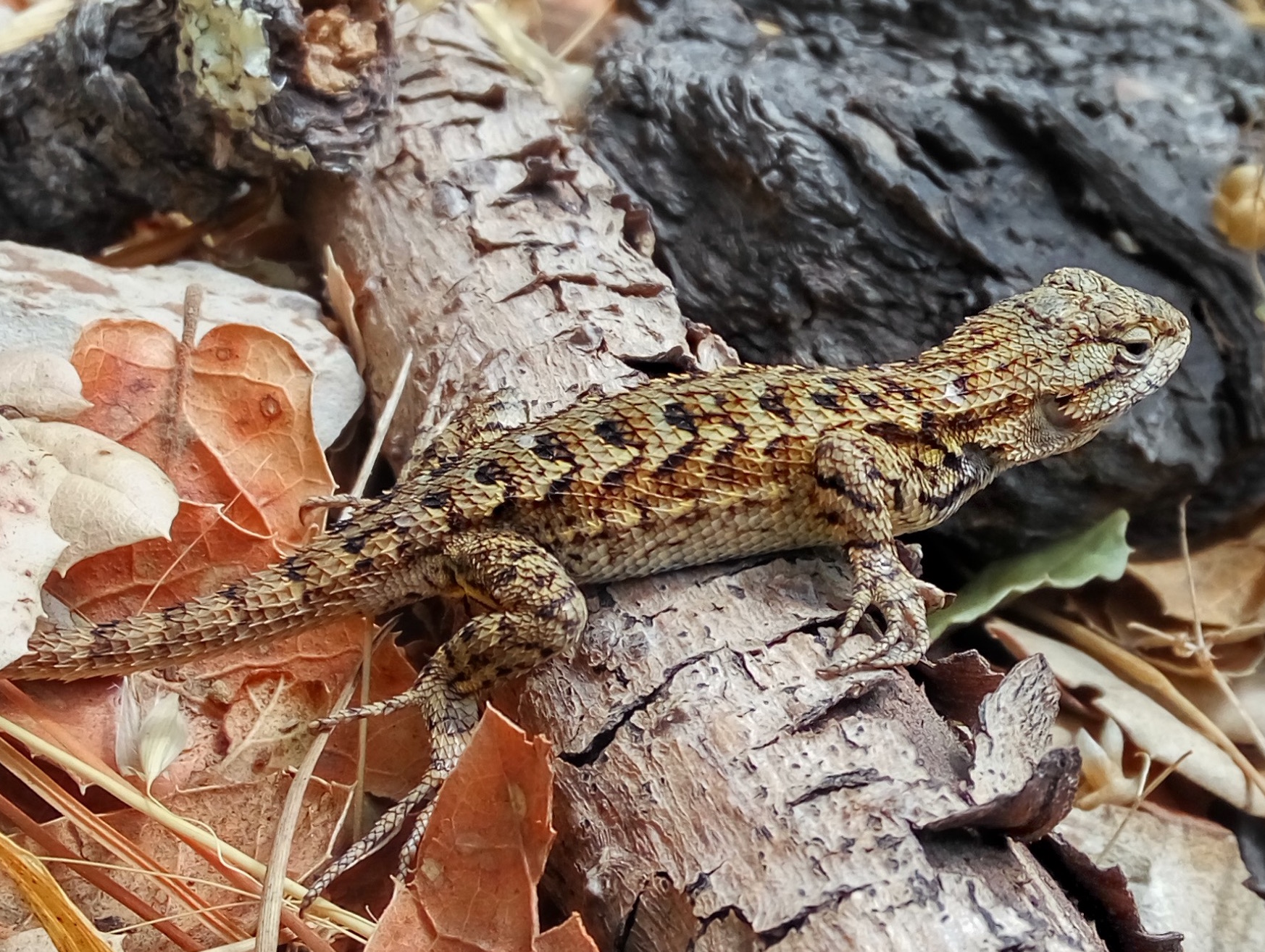 A western fence lizard in Big Basin State Park in Santa Cruz, California